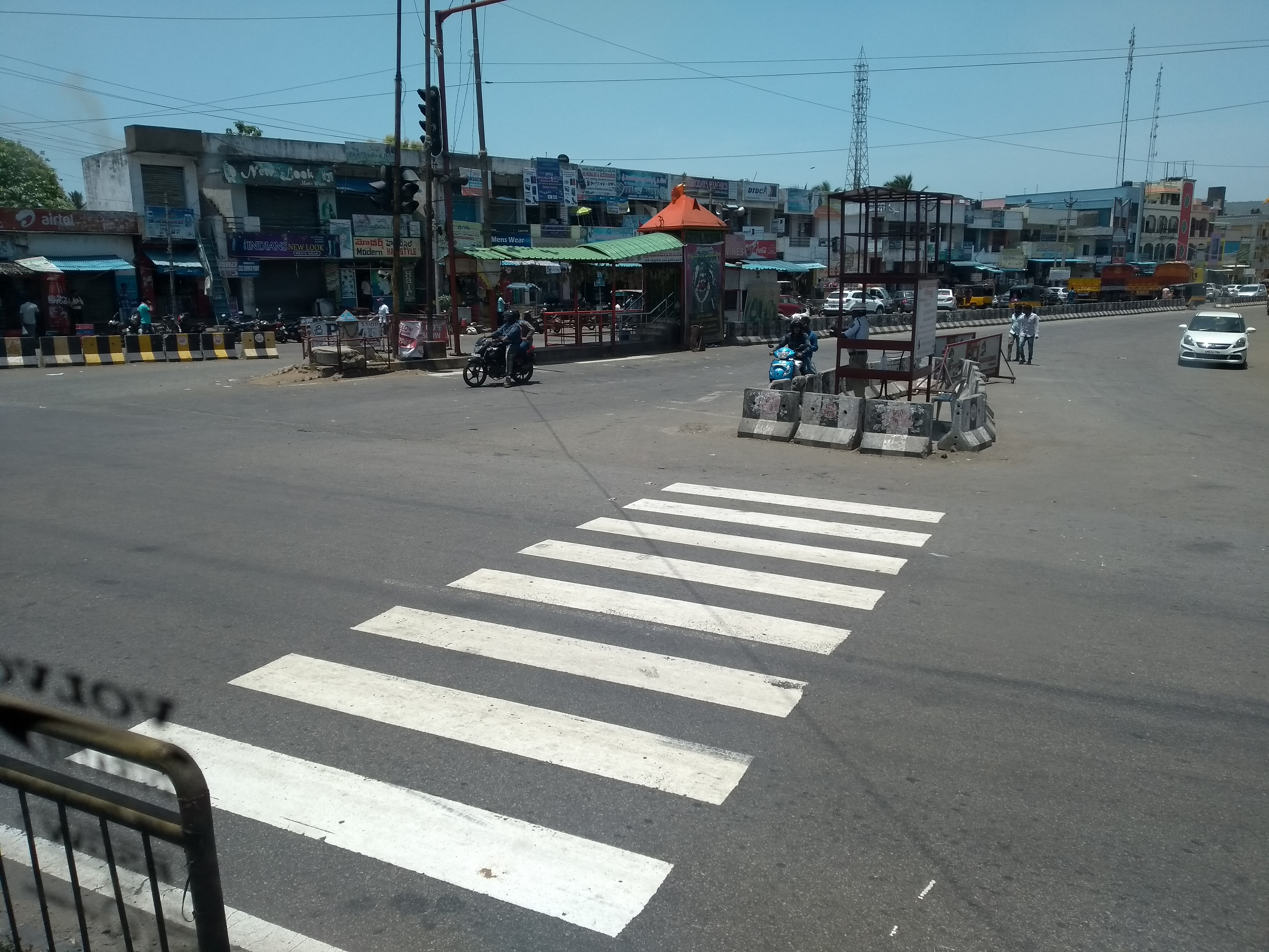 Lankelapalem2